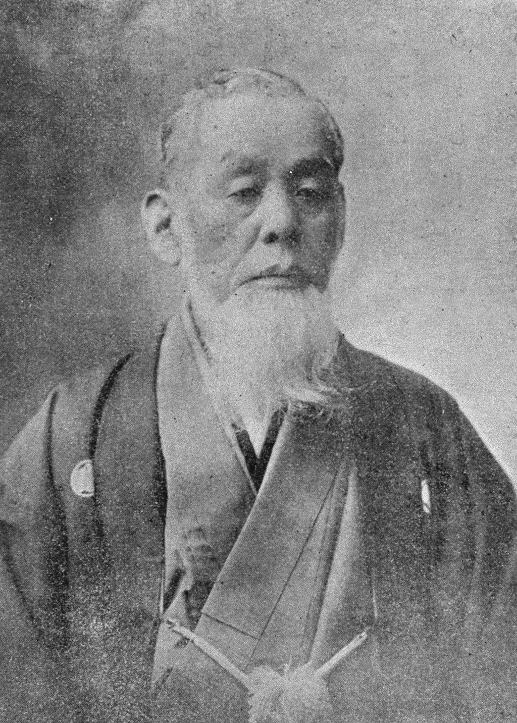 Portrait of Motono Morimichi (本野盛亨, 1836 – 1909)